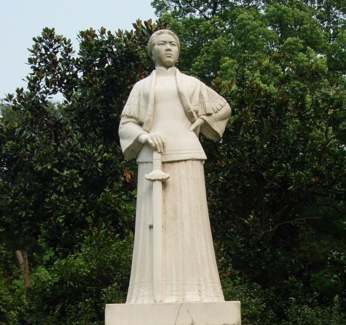 Statue of the Chinese revolutionary Qiu Jin, by the West Lake in Hangzhou, China.